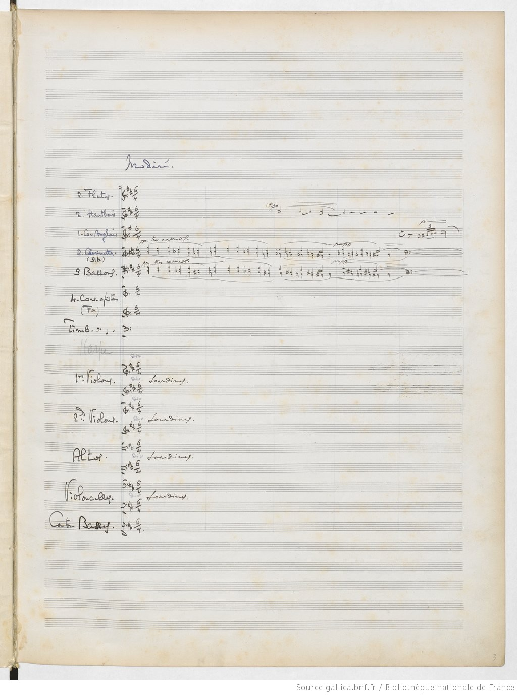 Page 3r of Claude Debussy's "Nocturnes", autograph manuscript dedicated to Georges Hartmann. Source: Bibliothèque nationale de France, département Musique, MS-23568